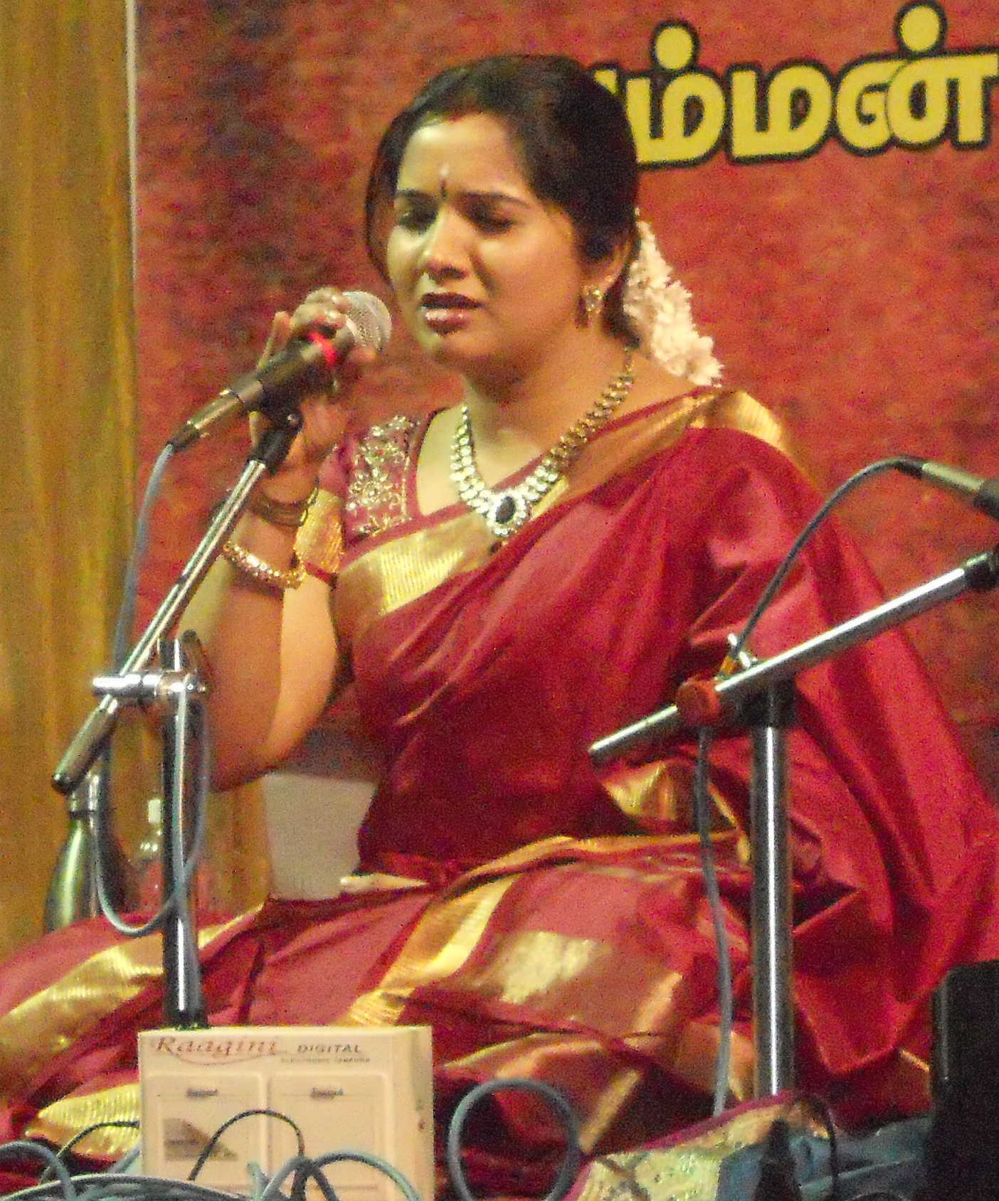 Mahathi during her navrathri concert 2011